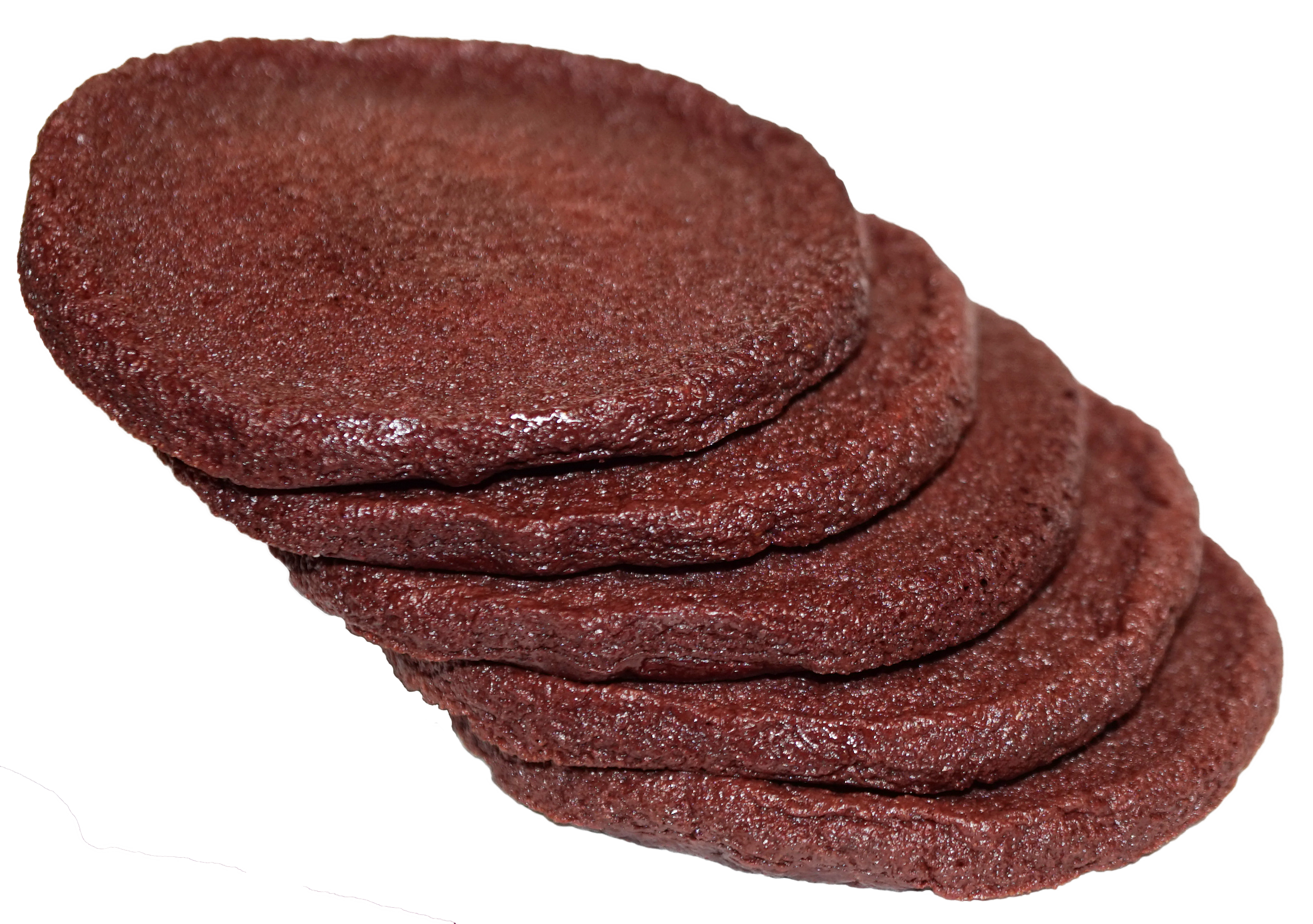 Blood pancakes. Convenience food by the company Atria.